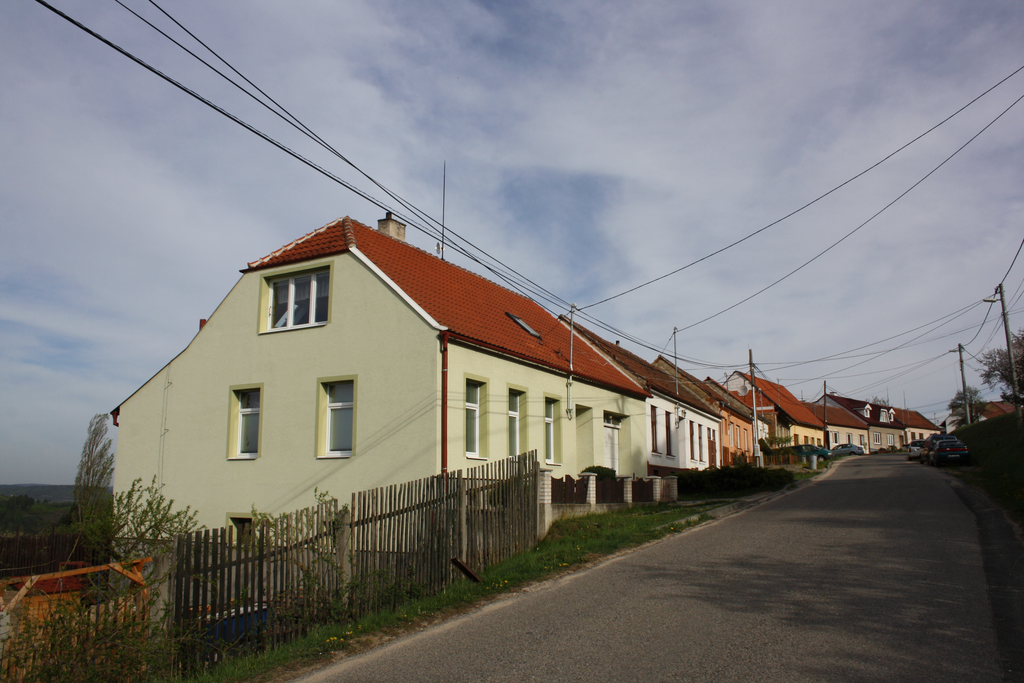 Omice, Brno-Country District, Sout Moravian Region, Czech Republic Project: Chráněná území This photograph was taken with a DSLR from WMCZ's Camera grant.